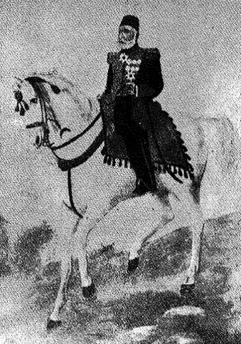 Ismail Pasha Abu Jabal, Egyptian 19th century army general. From Omar Tosson: The Egyptian Army in the Crimean War (Published 1936).